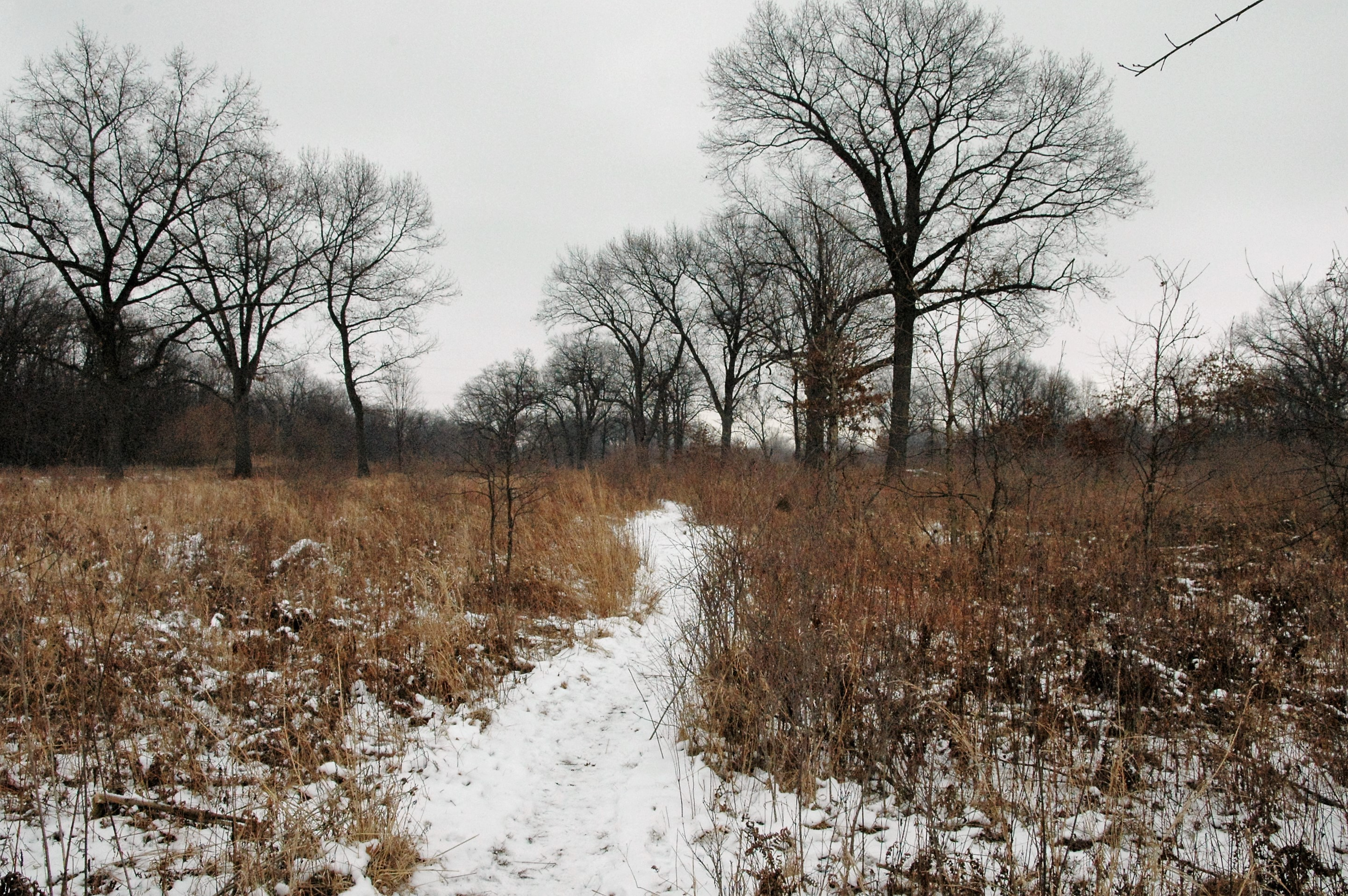 Ojibway Prairie in Late Winter